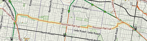 Map of Rosstown Railway Heritage Trail. Cartography by Steve Bennett, map by OpenStreetMap contributors.